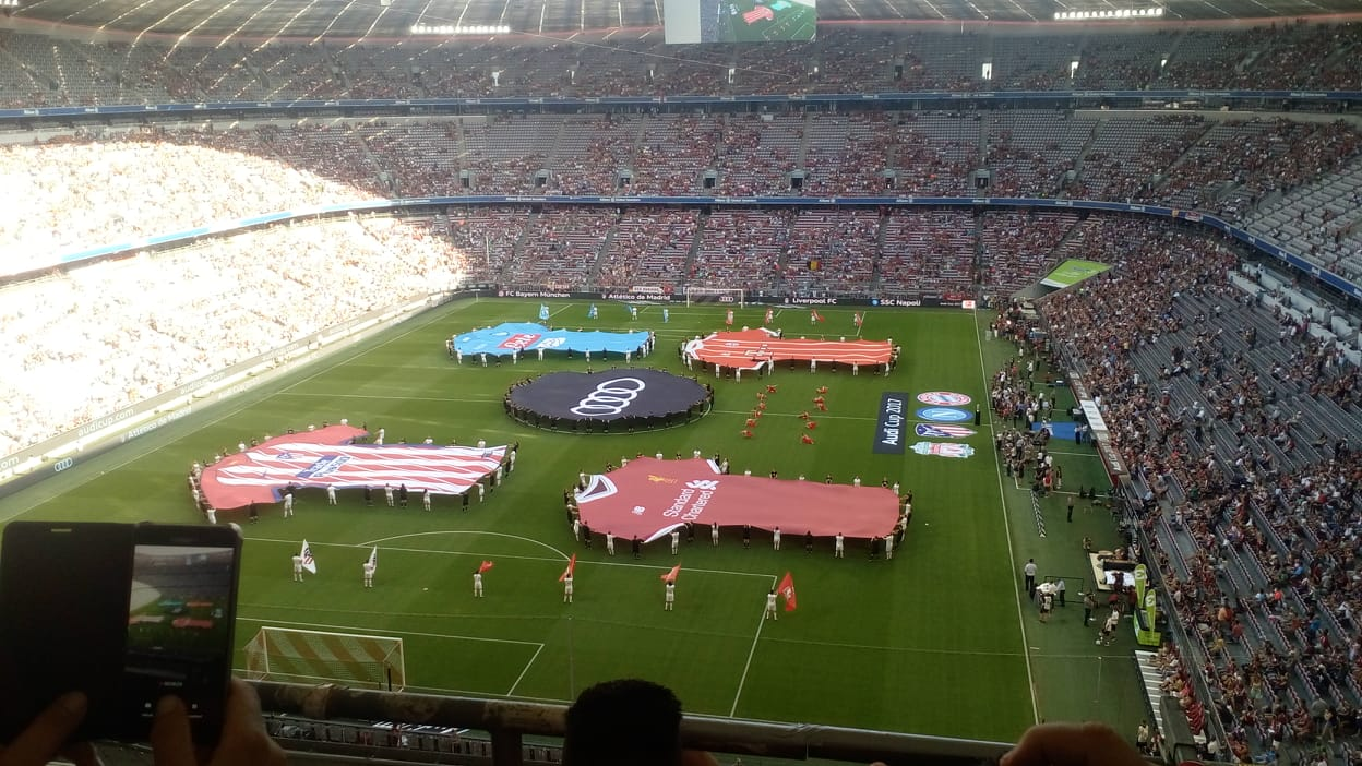 Photo of the start of the Audi Cup tournament. Germany, Allianz Arena, Football